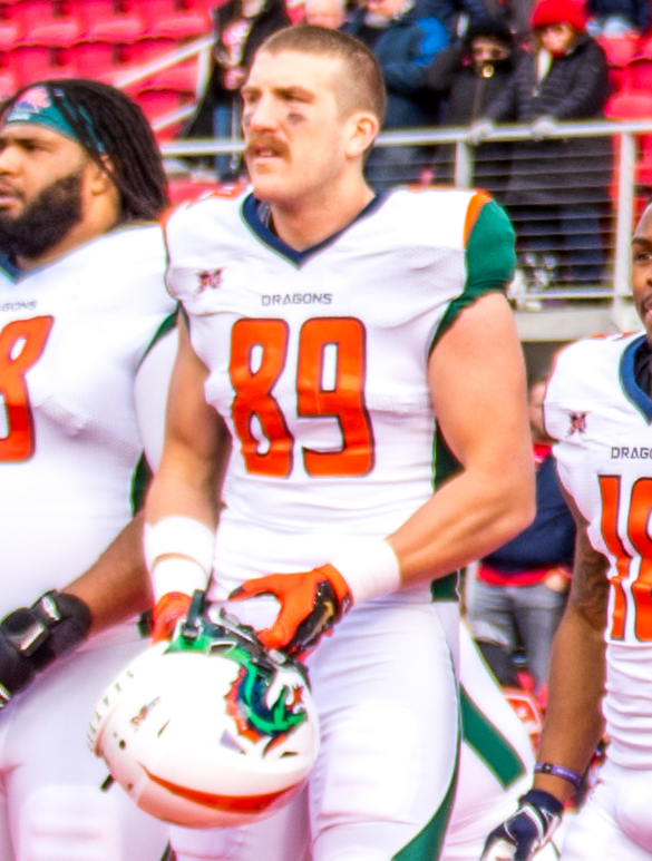 Soldiers with the 3d U.S. Infantry Regiment (The Old Guard), participate in a Joint Armed Forces Color Guard presentation prior to the Seattle Dragons and D.C. Defenders game in the opening to the XFL's football season, February 8, 2020 at the Audi Stadium, Washington, D.C. Following the game, Soldiers from the Joint Force Headquarters - National Capital Region and the U.S. Army Military District of Washington competed in a flag football game. (U.S. Army photos by Sgt. Nicholas T. Holmes)